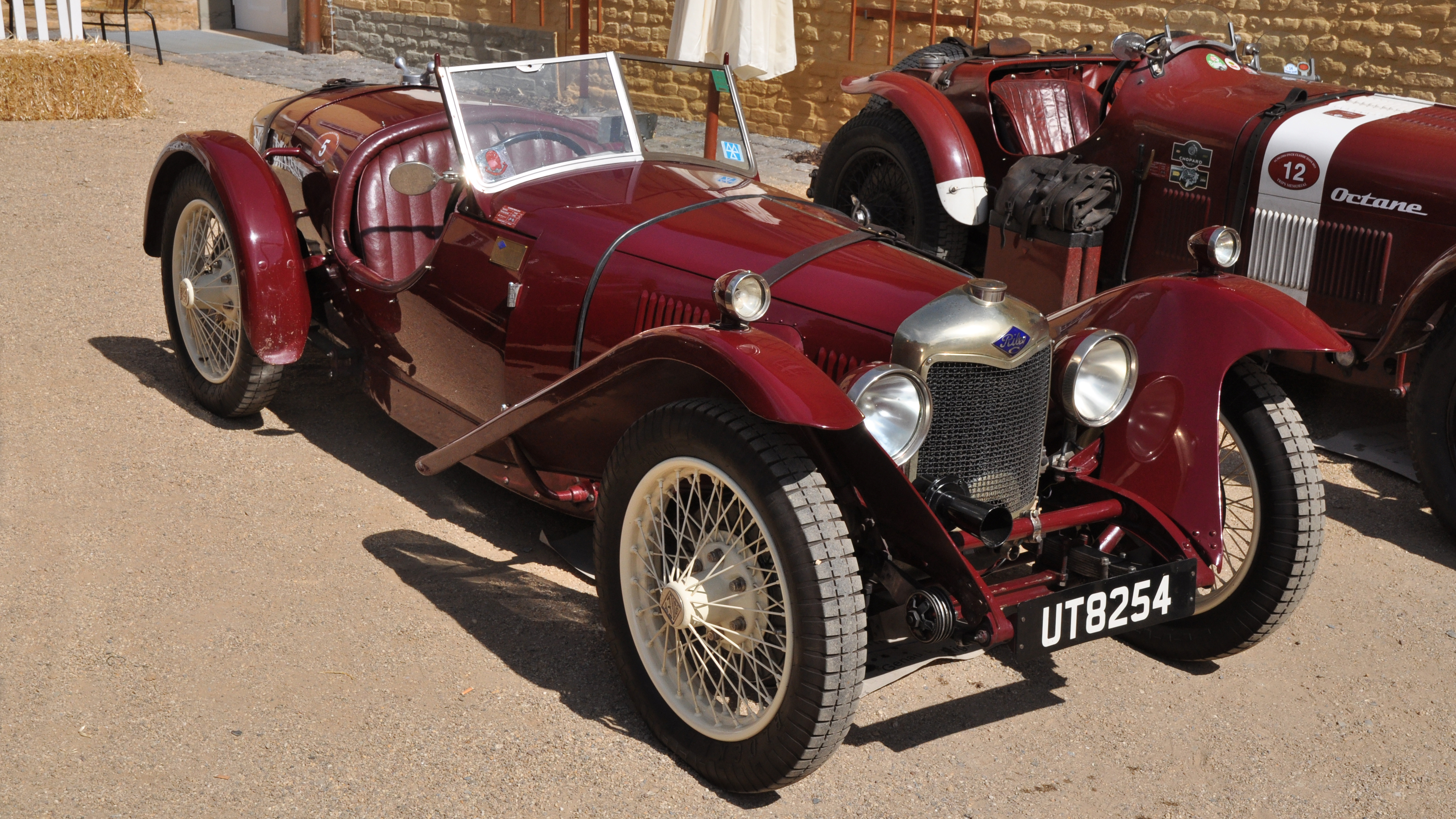 Riley Speed Model 9 "Brooklands" (1930) at the Classic Days Schloß Dyck